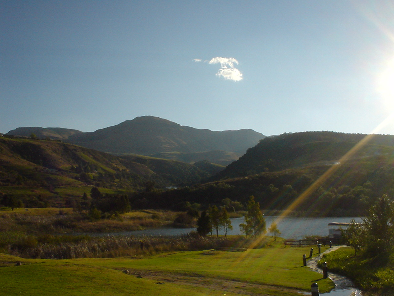 The Drakensberg Mountains in Kwa Zulu Natal South Africa